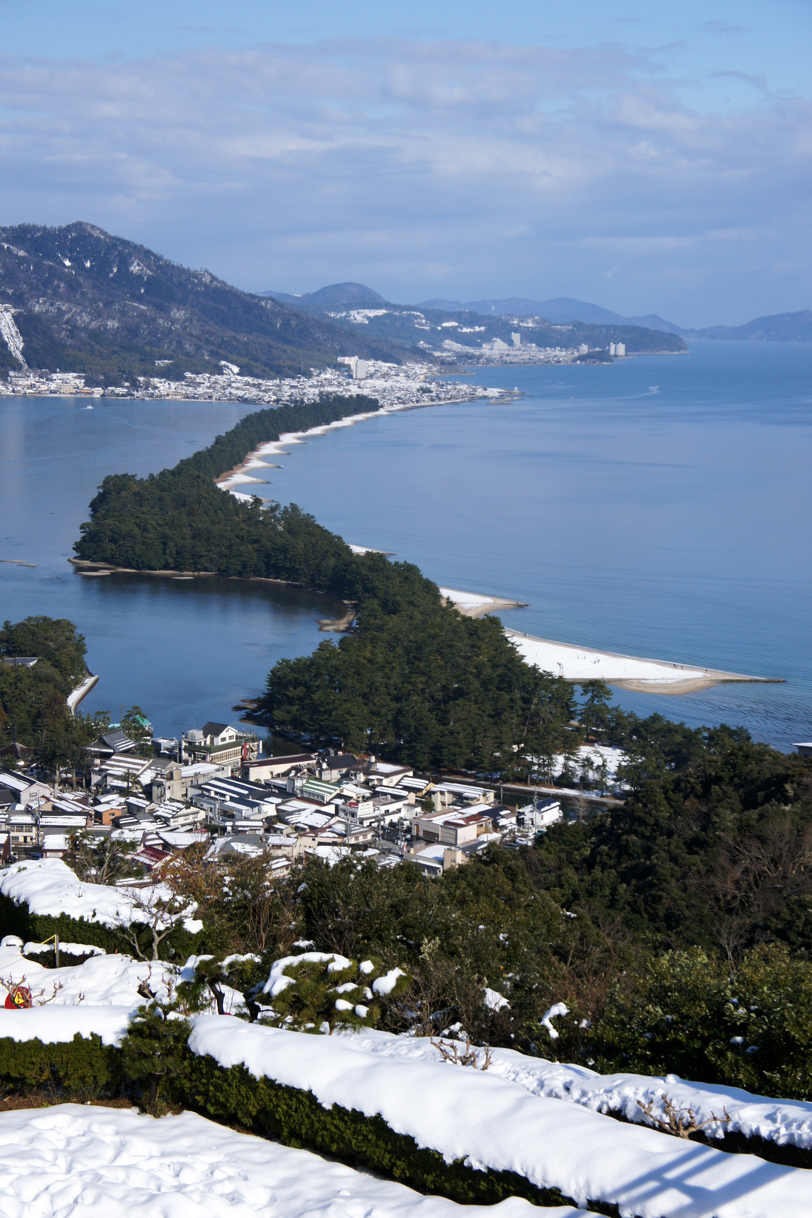 Amanohashidate is one of the Japan's Three Scenic Views in Miyazu, Kyoto prefecture, Japan. This photograph is a view from the Amanohashidate View Land on Mt. Monju.